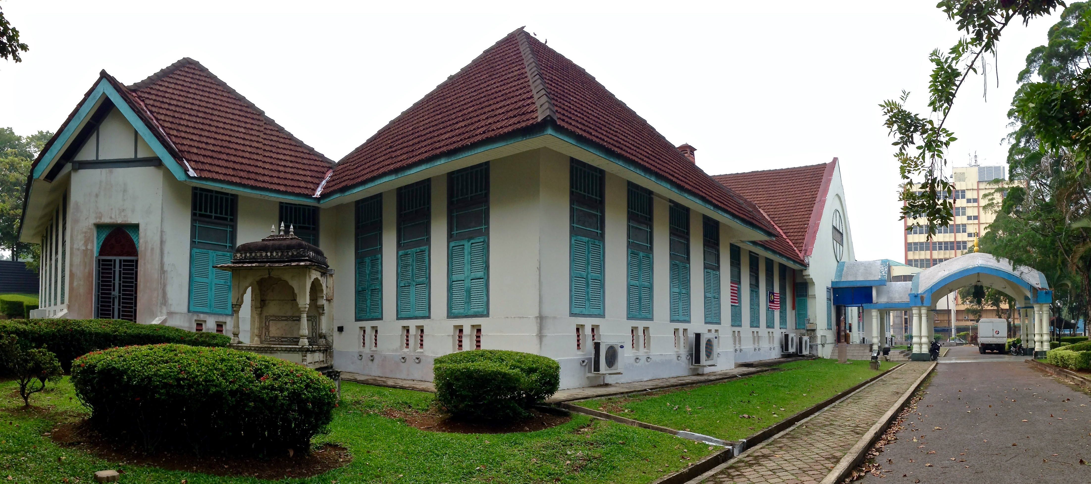 The Islamic Heritage Museum viewed at an angle.